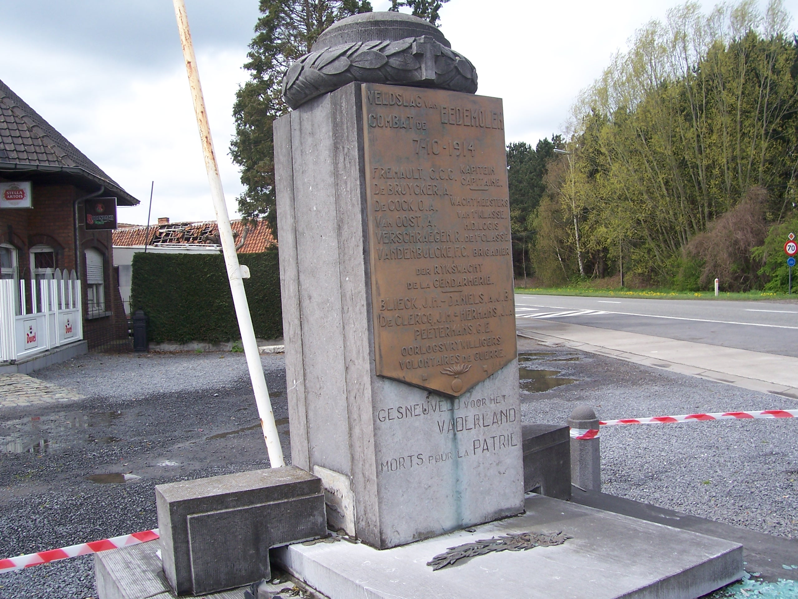 Oorlogsmonument van de Slag aan de Edemolen - Steenweg Deinze - Nazareth - Oost-Vlaanderen - België.